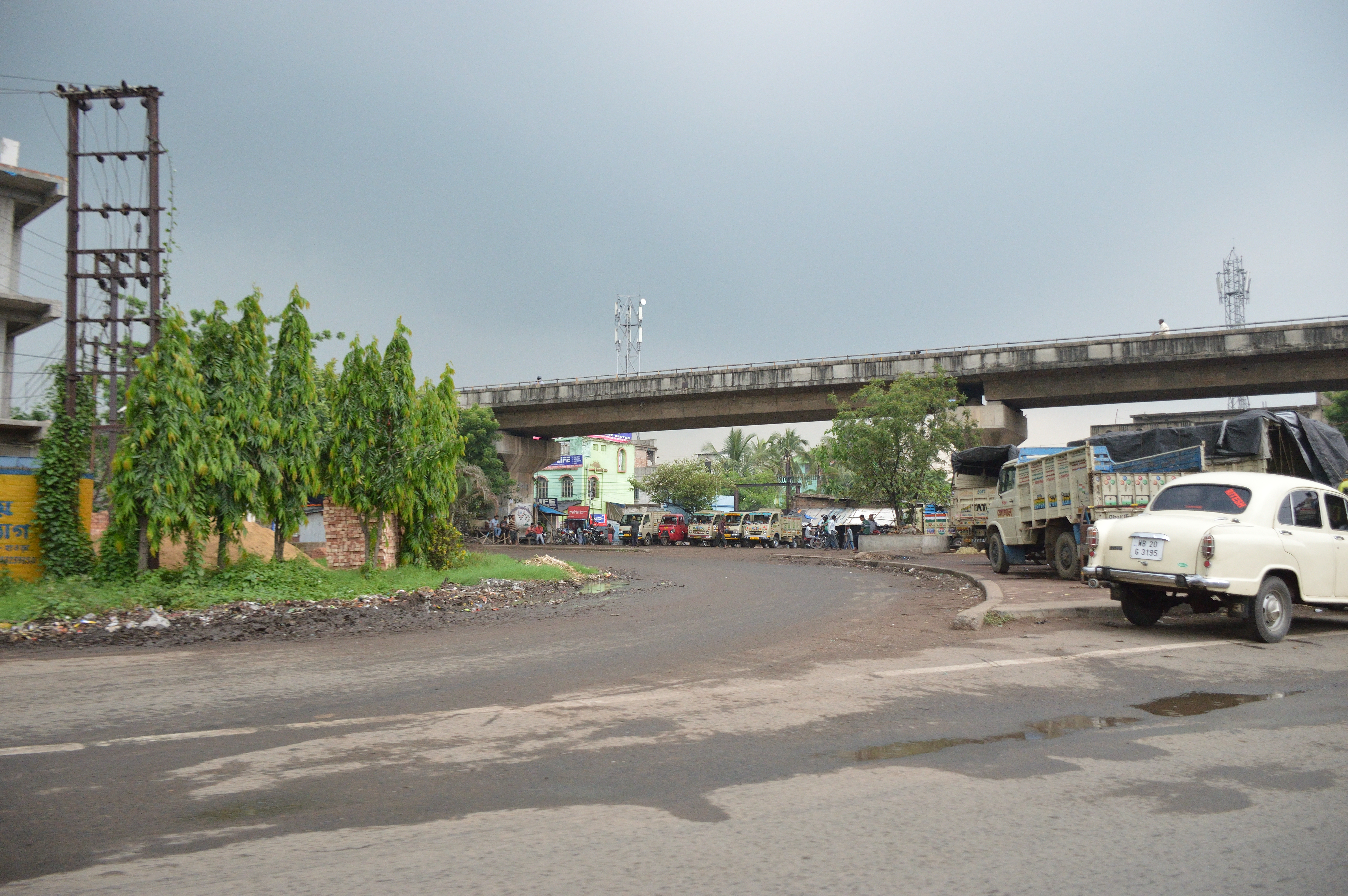 Photographed in West Bengal.